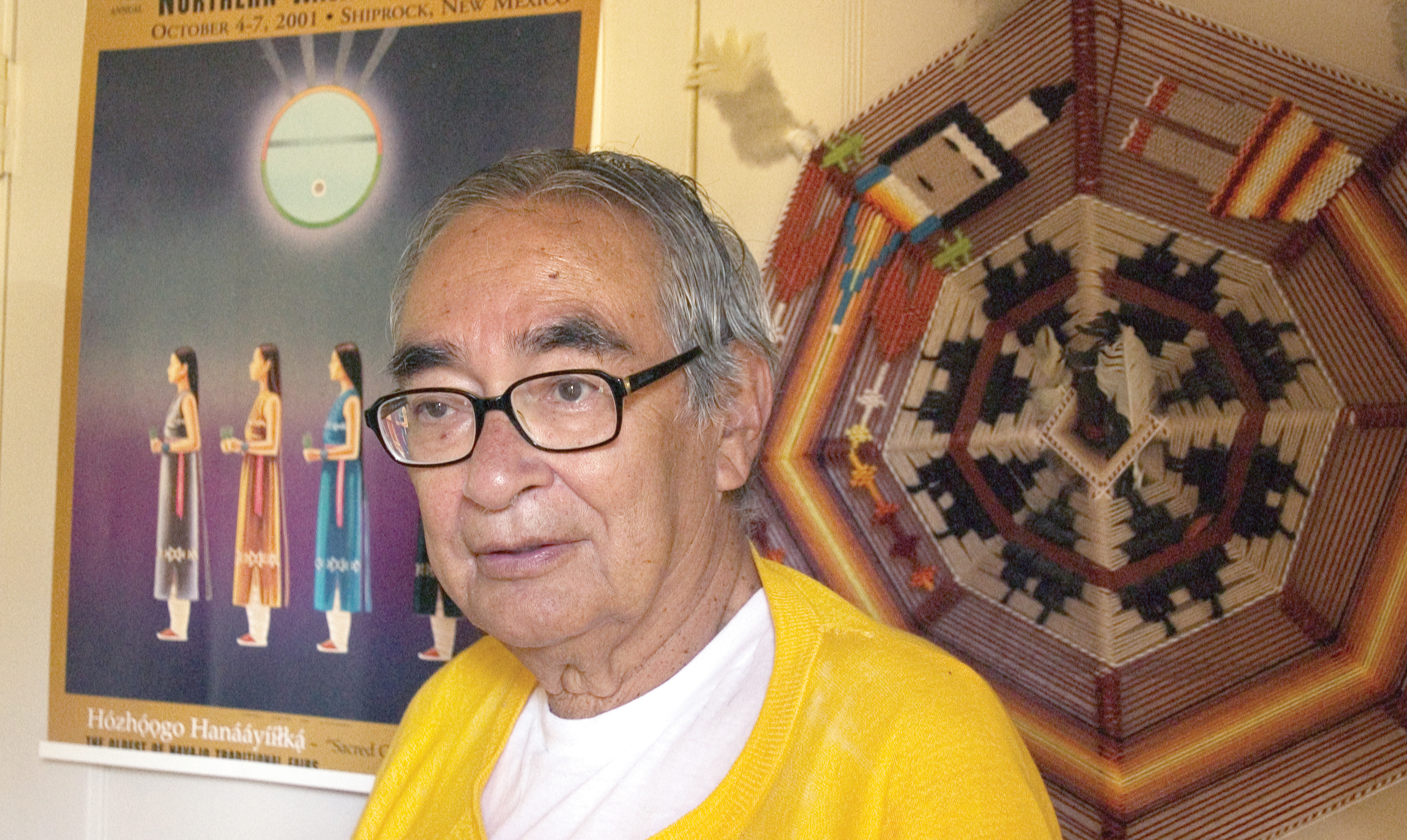 Promotional photo of Dr. Fred Begay distributed as part of a 2004 press release on the occasion of his election to the New York Academy of Sciences.[1]